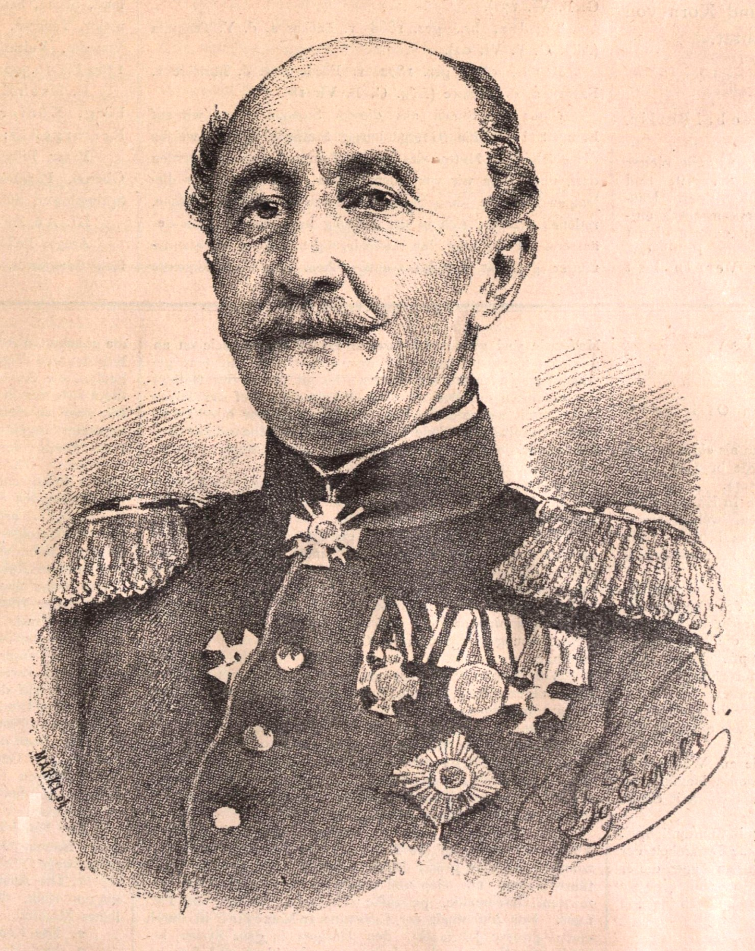 Portrait of Benno Hann von Weyhern (1808-1890), Prussian general.